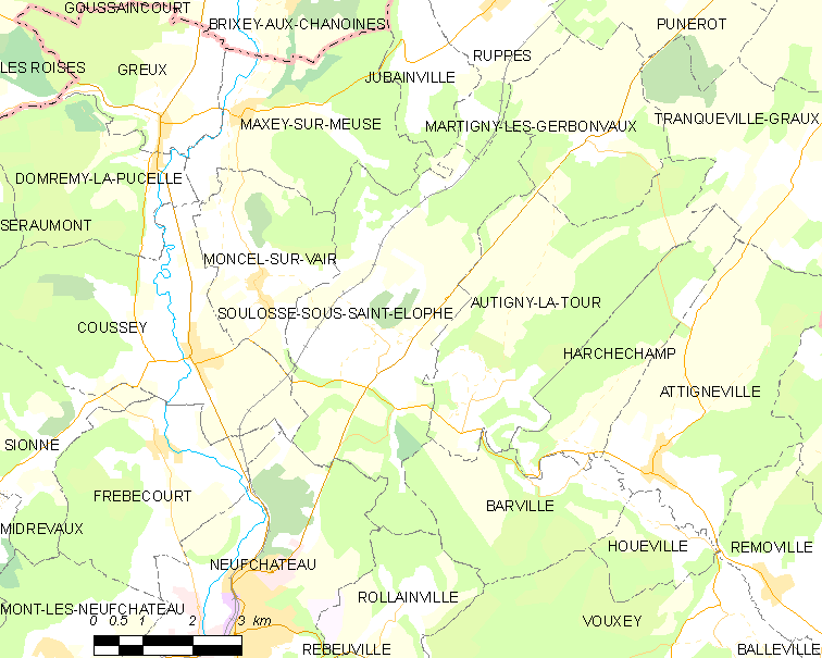 Map of French municipality Soulosse-sous-Saint-Élophe